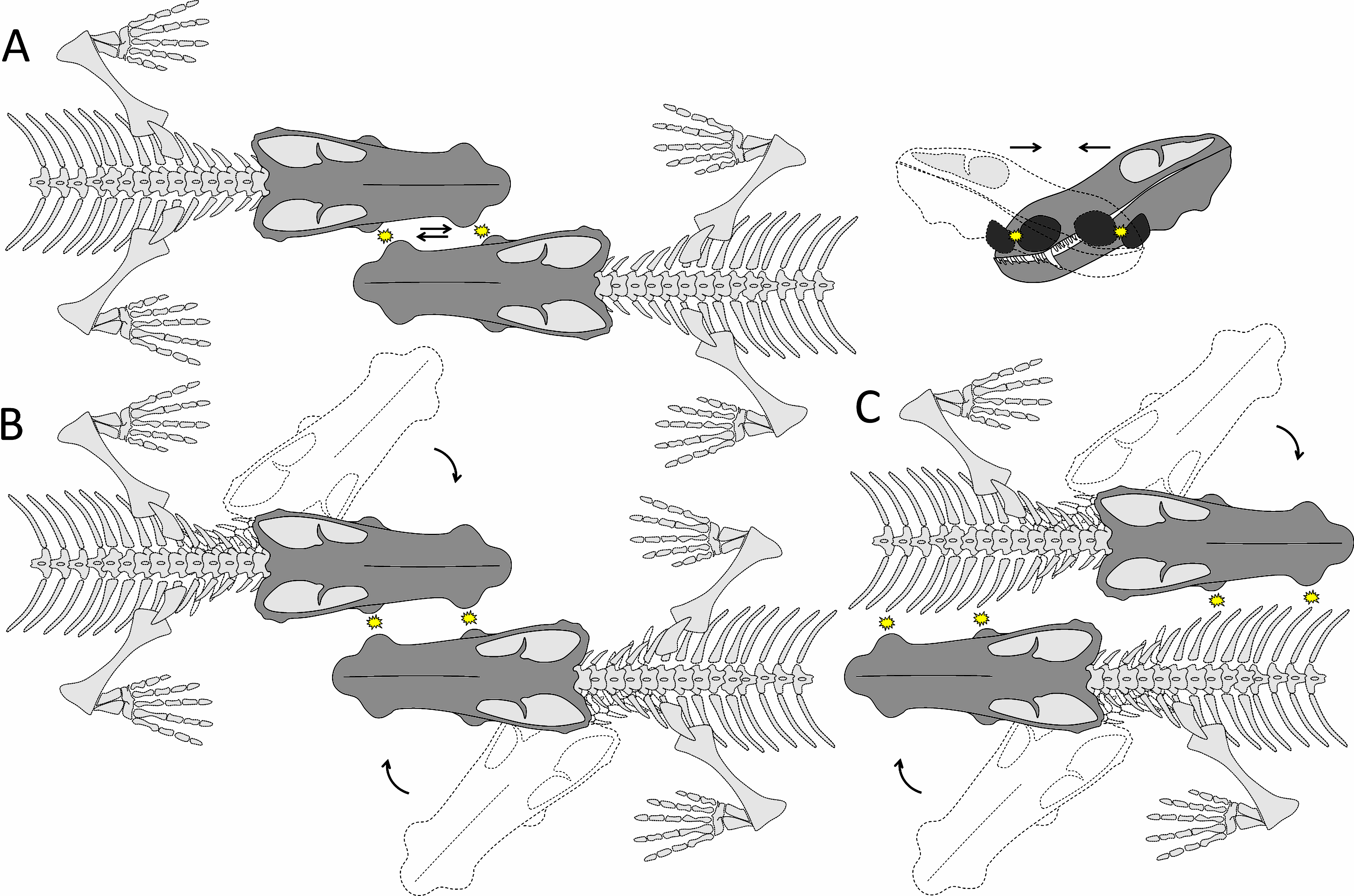 Different types of fighting hypothesized in Choerosaurus dejageri. A, lateral head pushing; B, lateral head butting; C, lateral flank butting. The arrows represent head movements. The stars represent the points of impact.